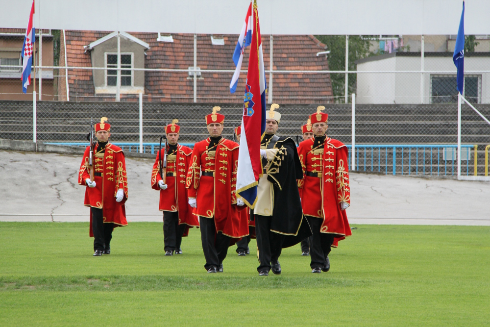 Pripadnici Počasno-zaštitne bojne u odorama 1. gardijske počasne bojne na stadionu u Kranjčevićevoj ulici na obilježavanju dvadesete obljetnice Oružanih snaga Republike Hrvatske i Dana Hrvatske kopnene vojske.